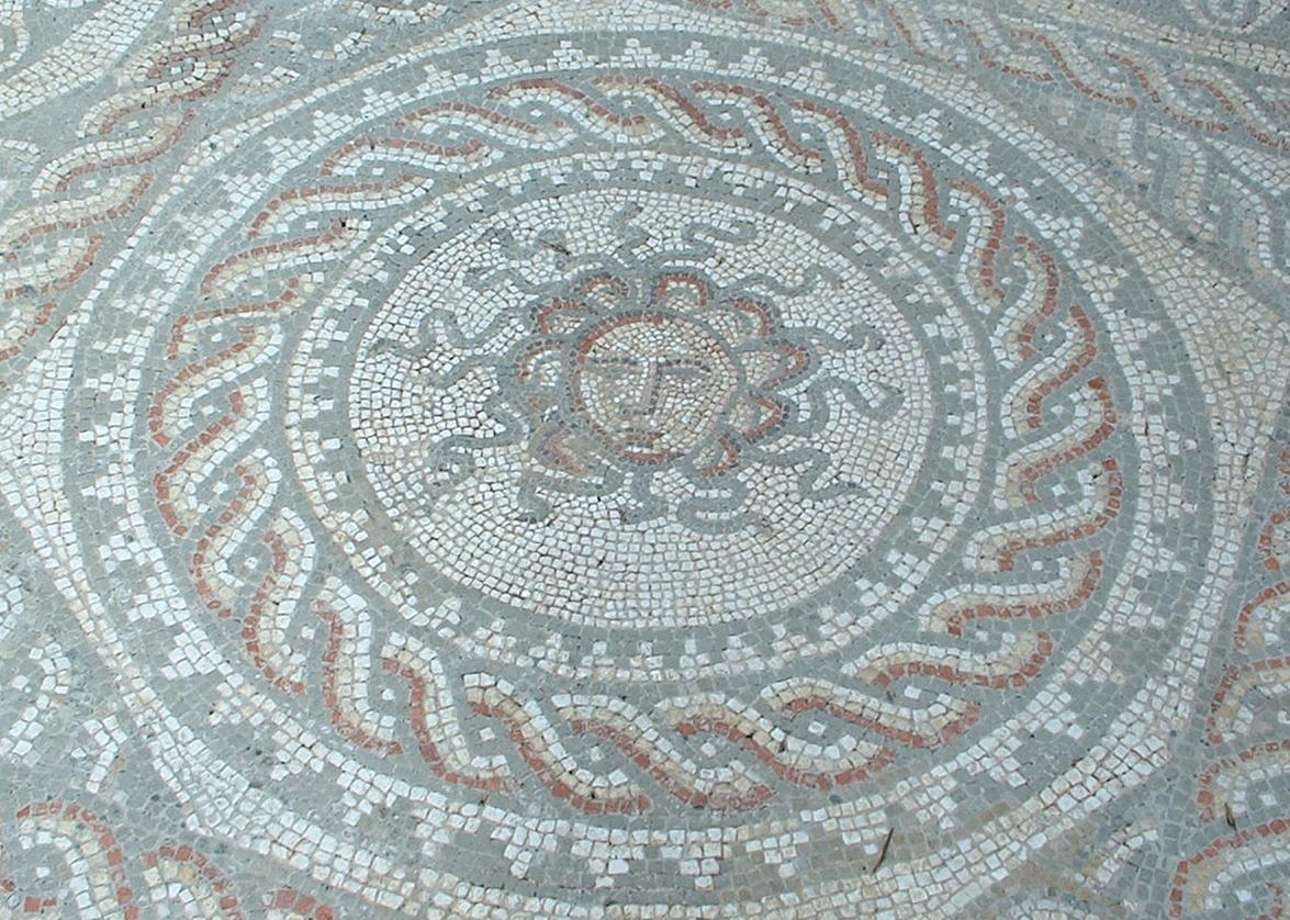 Ancient Roman mosaics at the Bignor Villa (UK): Medusa. Original image. Enhanced image.